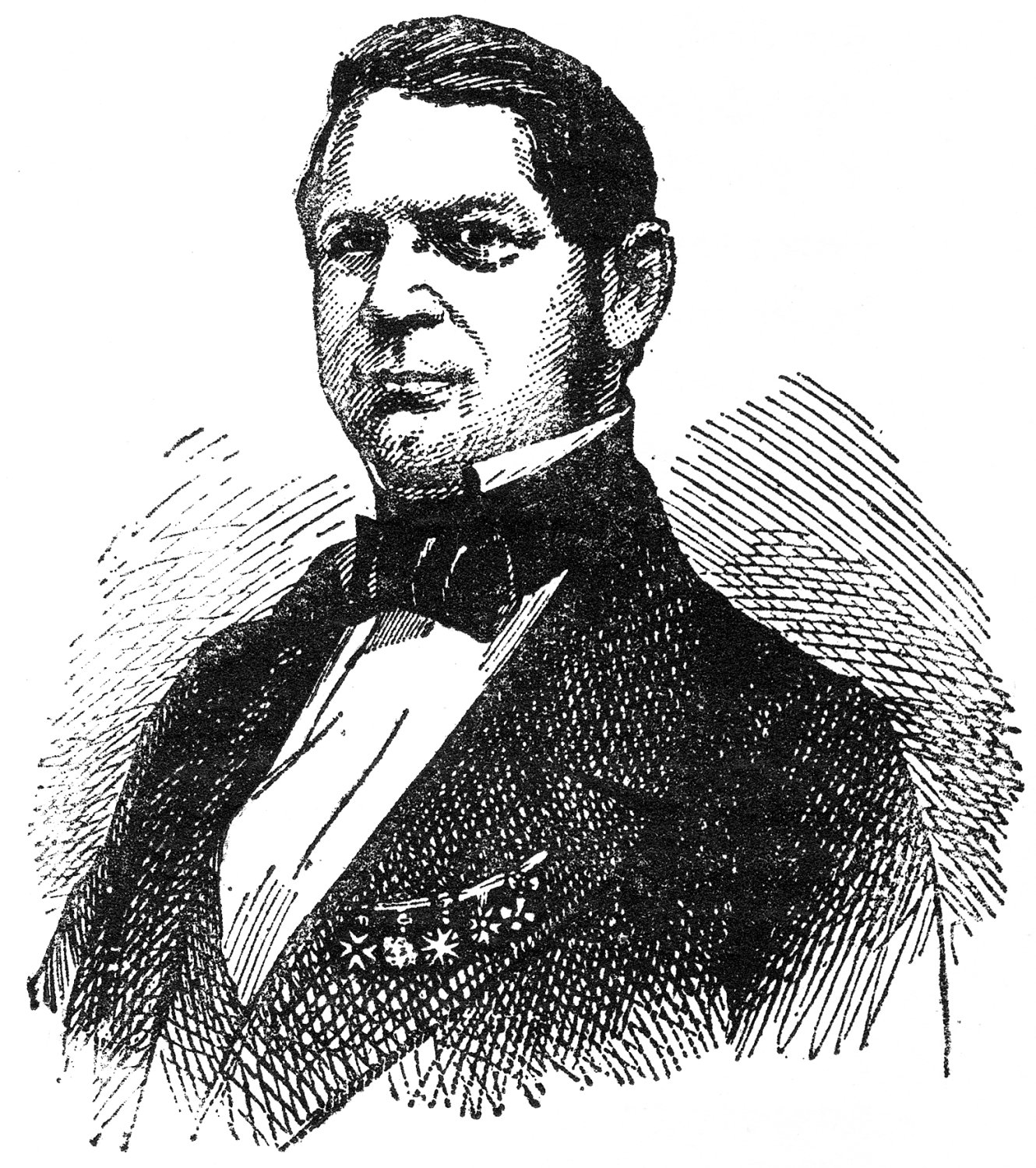 This is a scan of the historical document